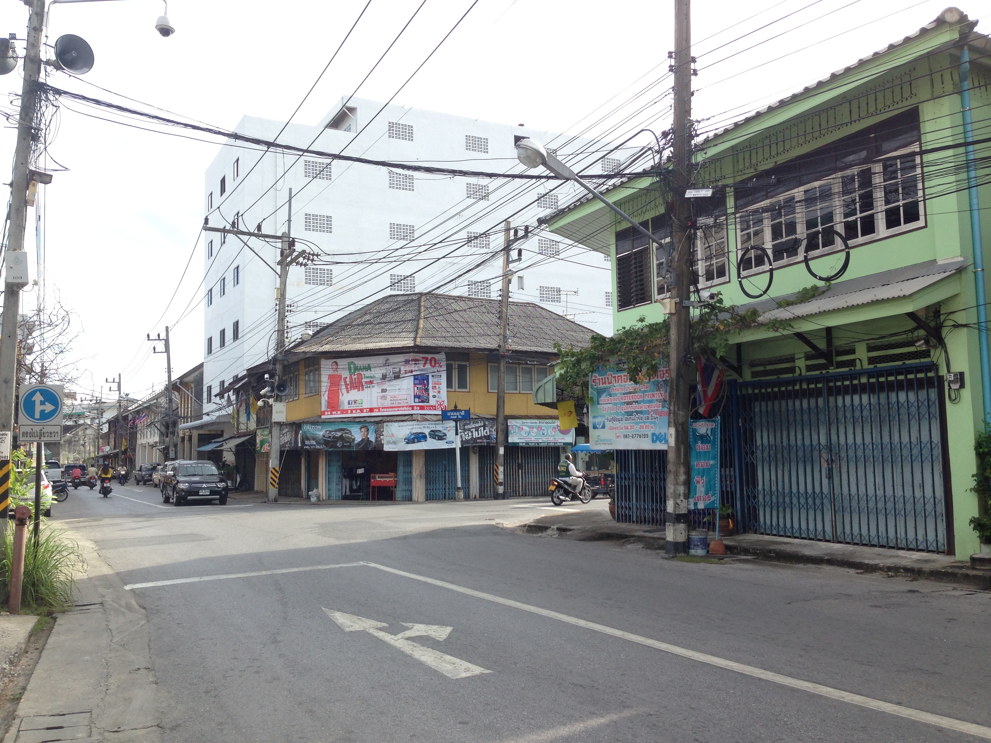 Anoru, Mueang Pattani District, Pattani 94000, Thailand